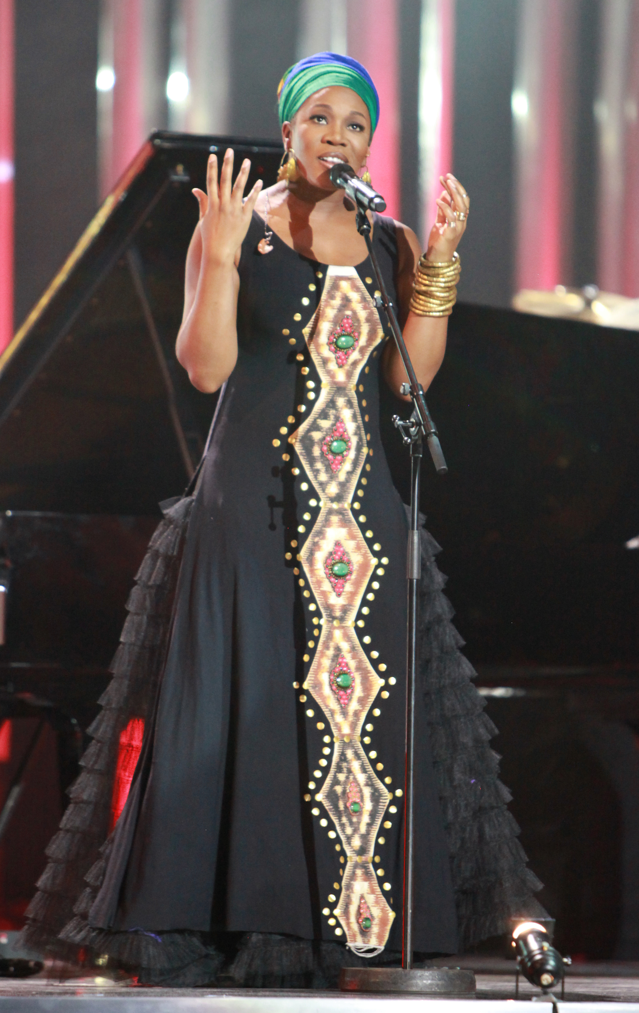 India.Arie at The Nobel Peace Price Concert 2010